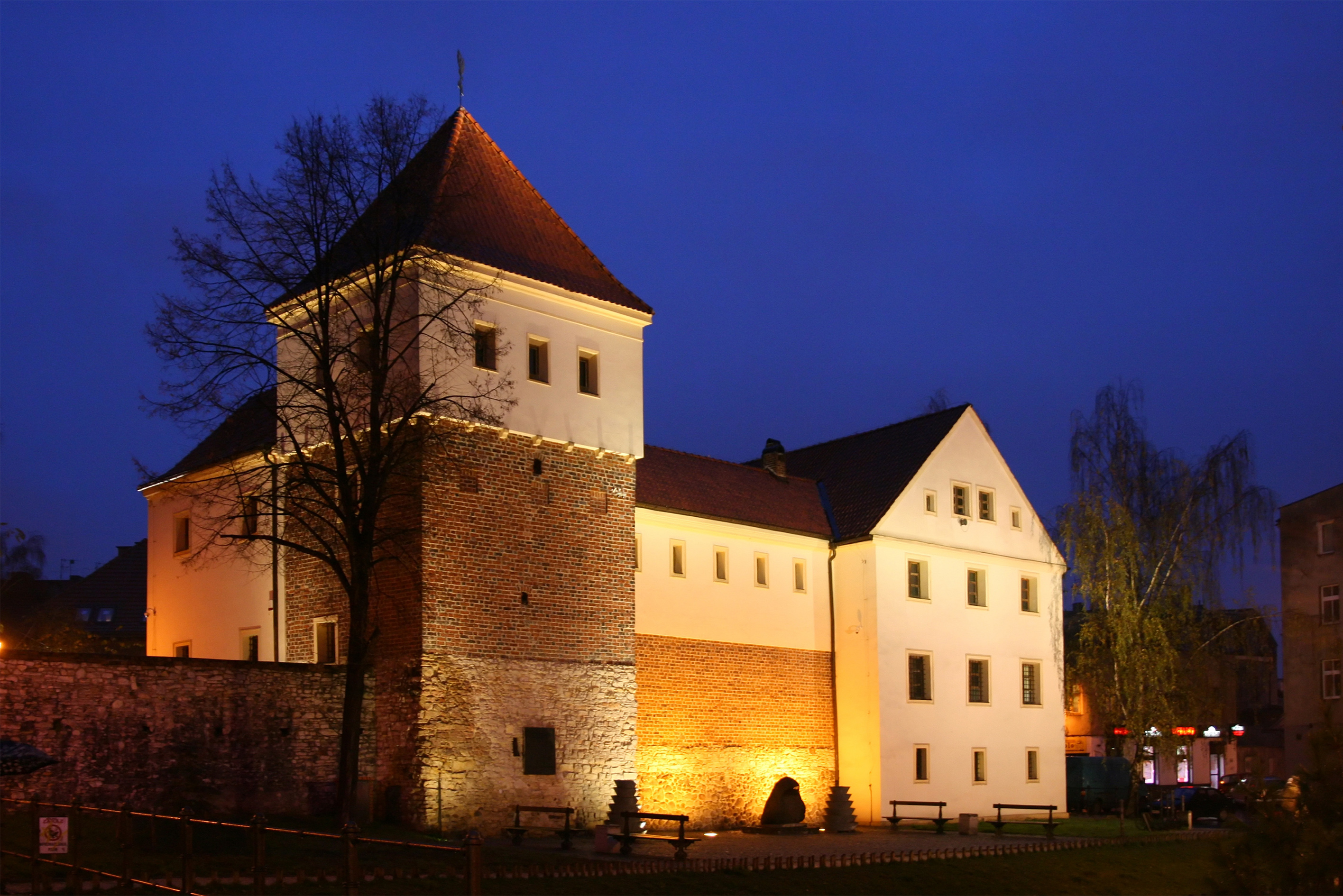 Castle in Gliwice (Poland).